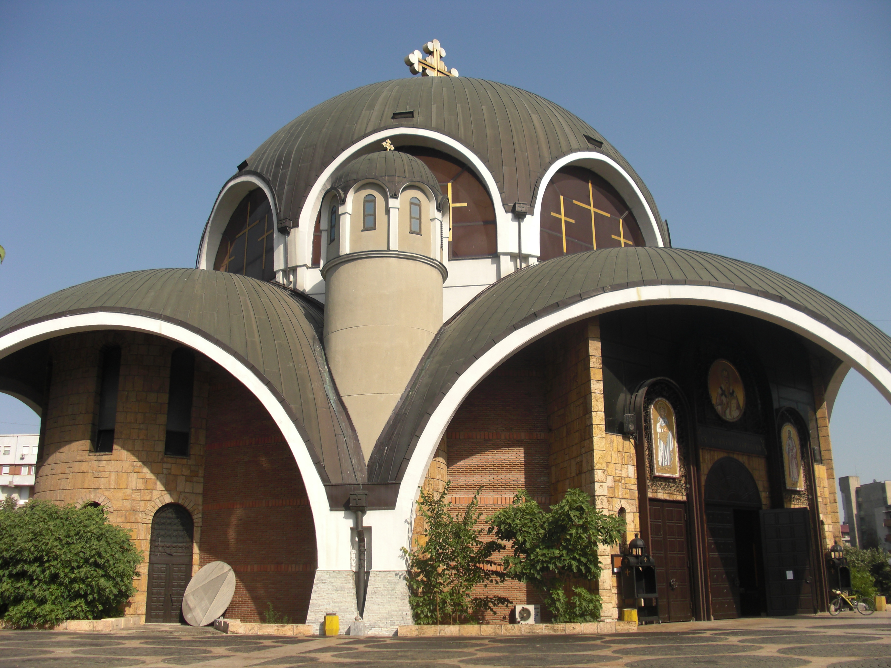 Soborna Church in Skopje, Macedonia